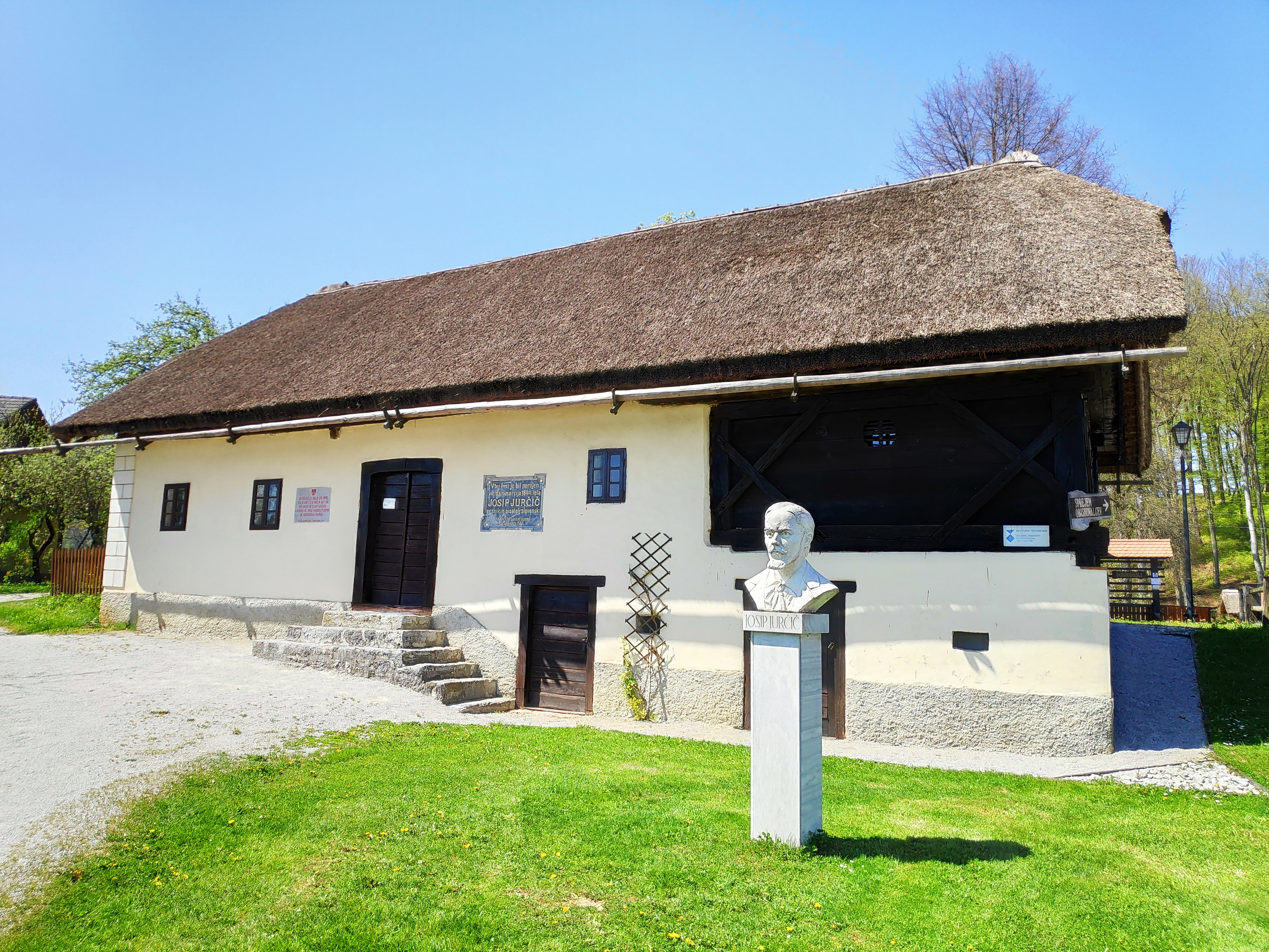 Josip Jurčič home at Muljava, Slovenia